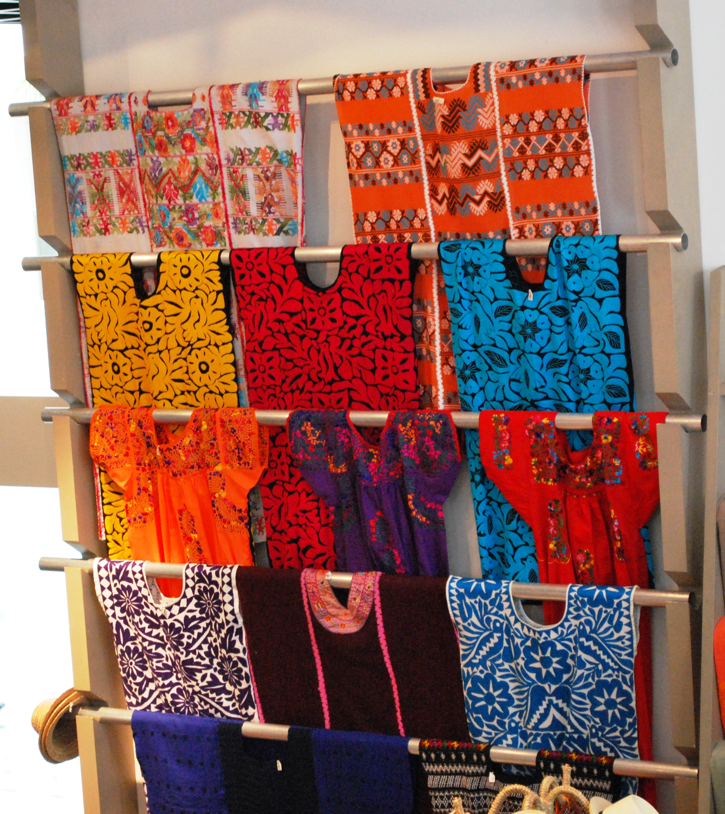 Huipil blouses for sale at the Museo de Arte Popular in Mexico City